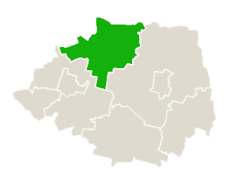 Outline Map of Gmina Wyszki